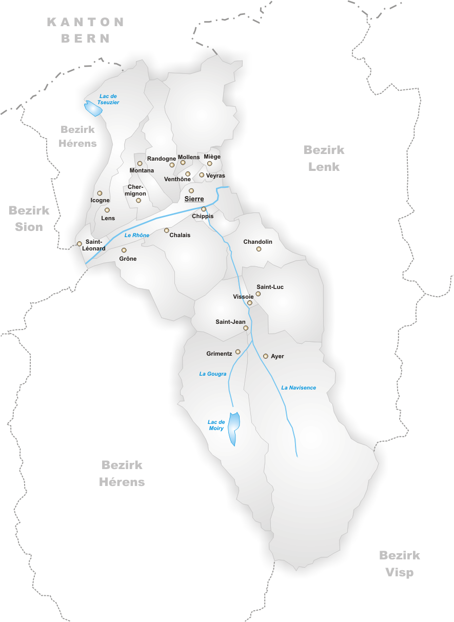 Municipalities of District Sierre